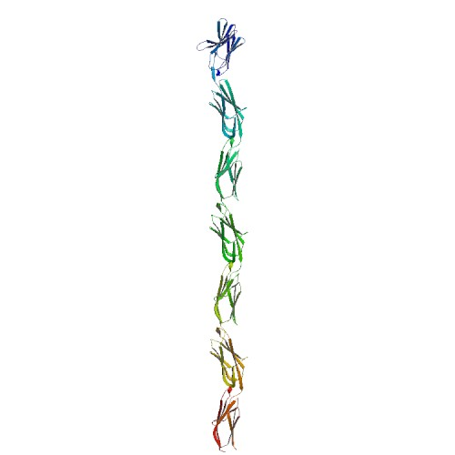 Protein structure image